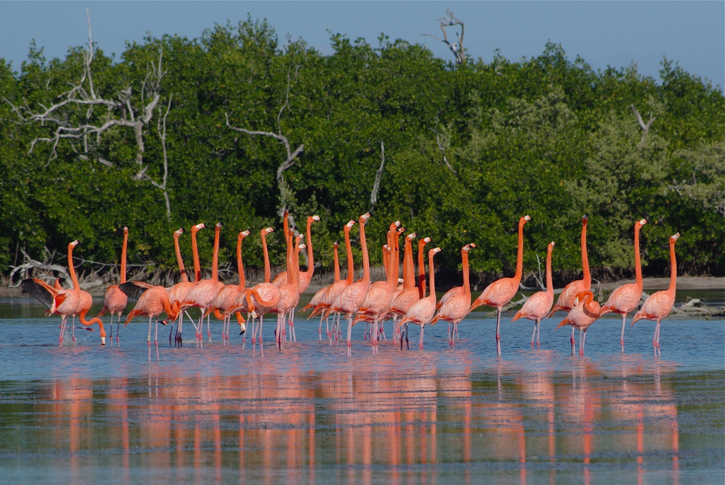 American Flamingos Phoenicopterus ruber, Río Lagartos, Yucatán, Mexico. We took a guided tour up to Rio Lagartos with MexiGo tours. They were doing the Flamingo Dance in this shot. Apparently it is often a precursor to flight, but not this time. It _is_ impressive to see them all march in formation. This is only a small portion of the flock.